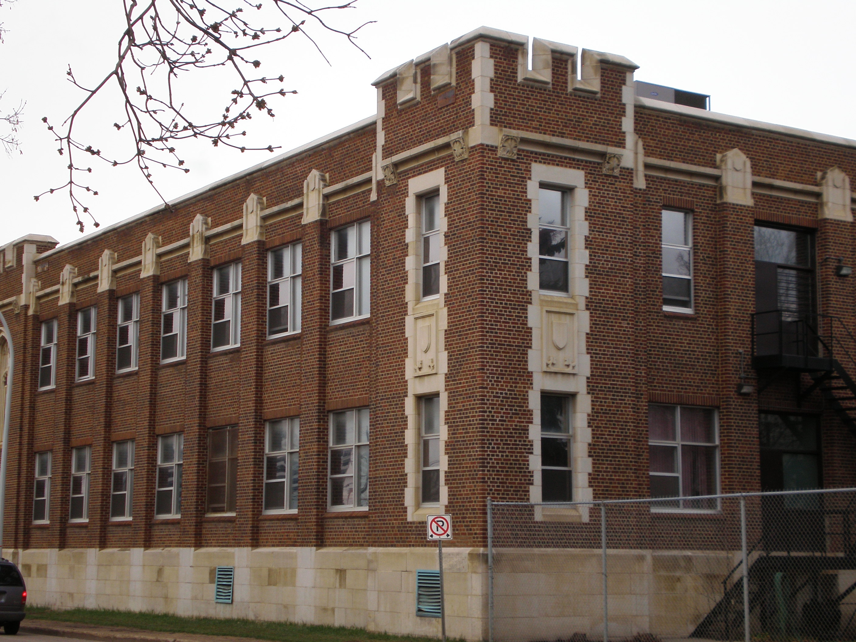 Main building of the Grierson Centre. Now a prison, formerly a police HQ.